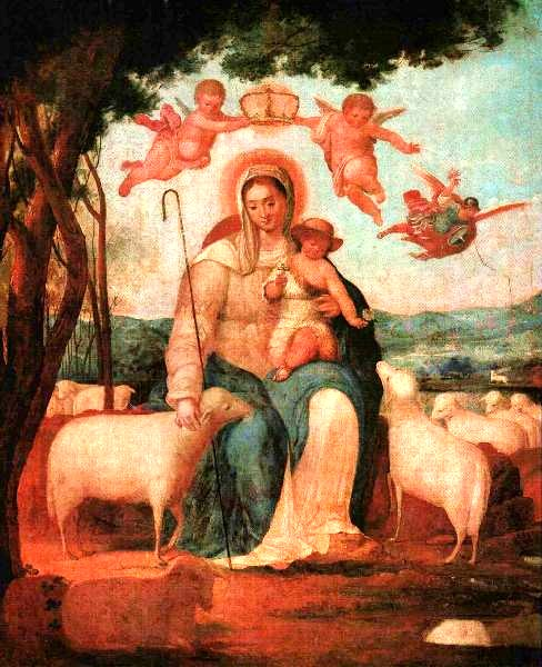 The Divine Shepherdess